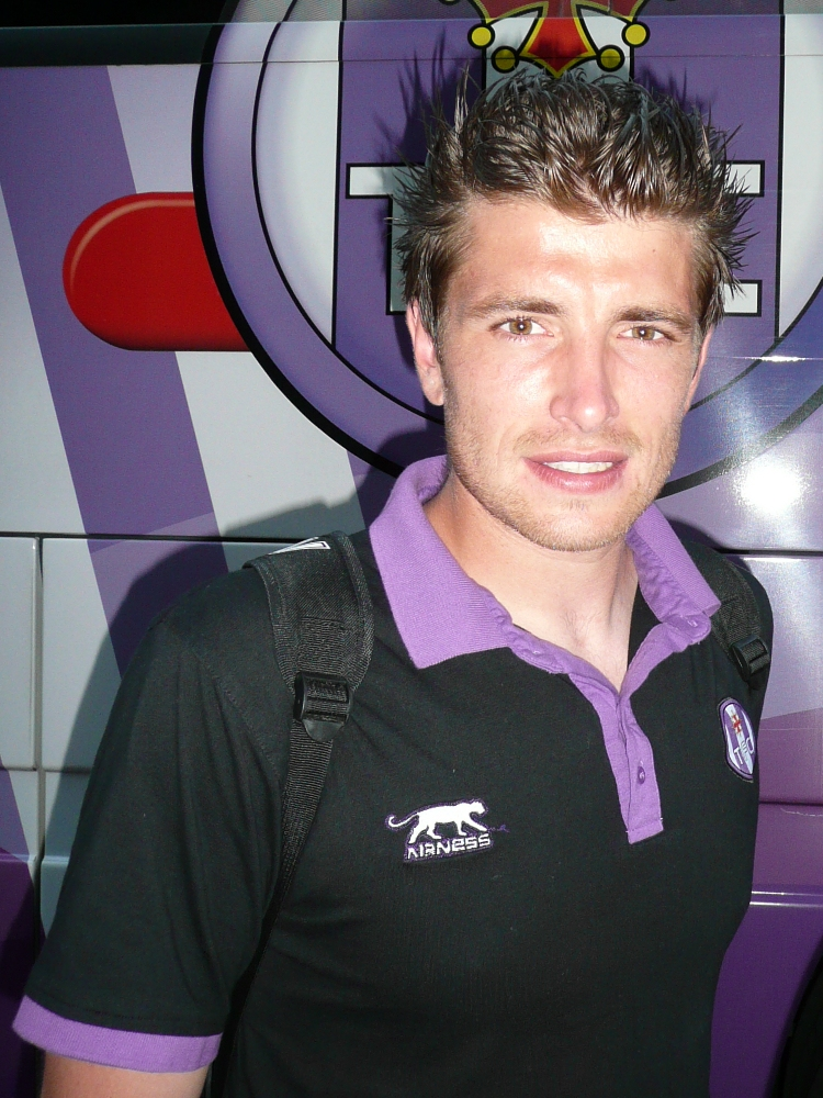 French goalkeeper (soccer) Cédric Carrasso